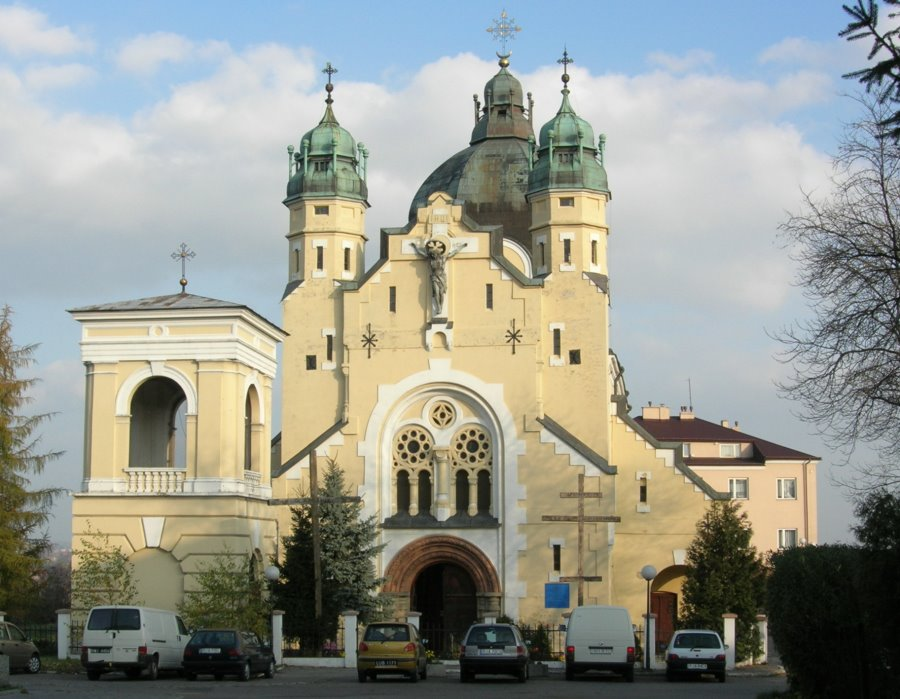 Jarosław (Poland), Greek Catholic church.